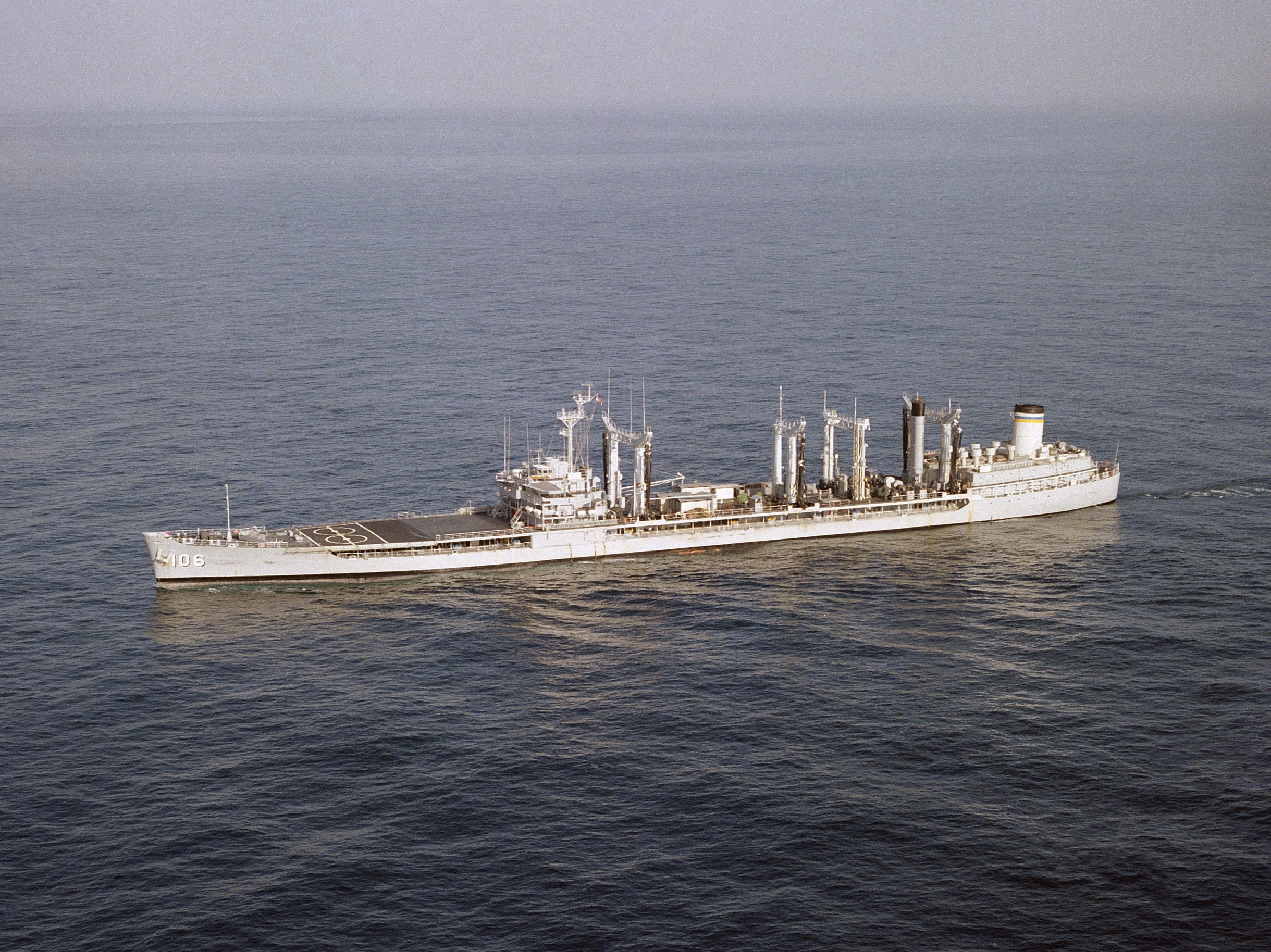 The U.S. Military Sealift Command fleet oiler USNS Navasota (T-AO-106) underway in the Pacific Ocean on 2 March 1987.